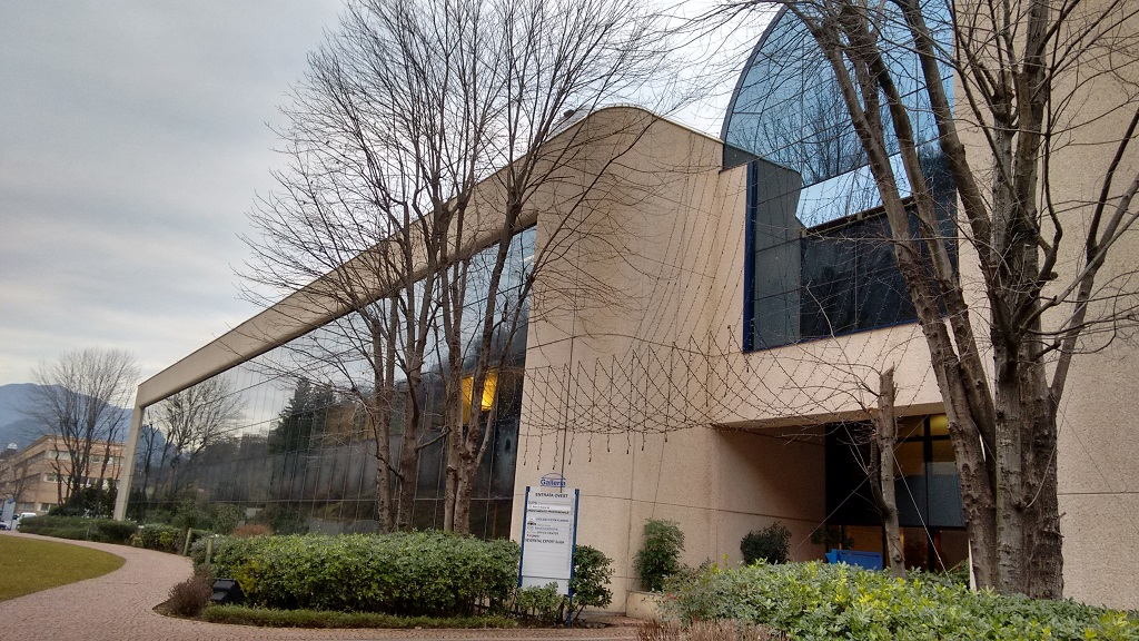 Marconi Technologies Headquarters in Manno